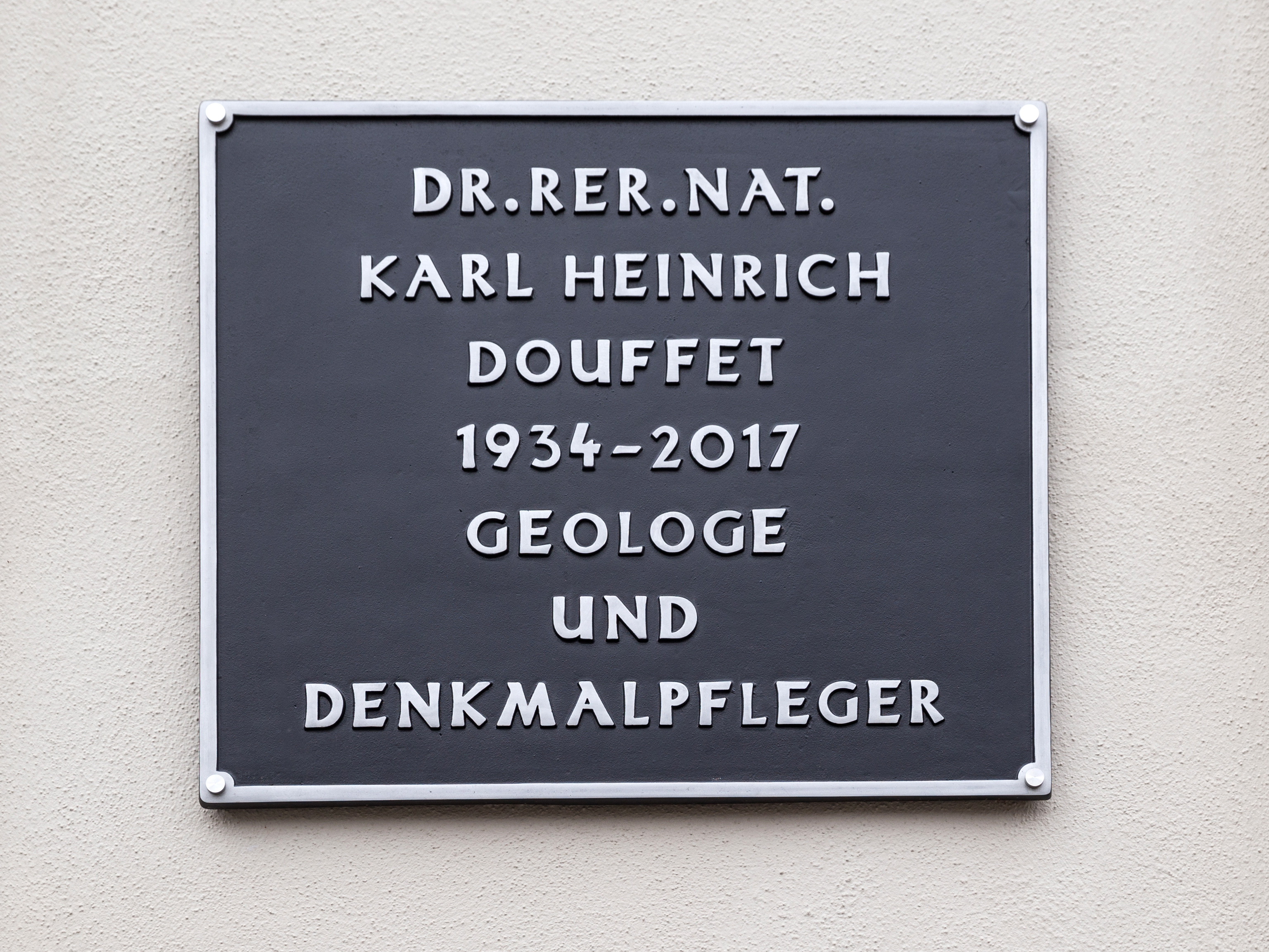 Karl Heinrich Douffet, plaque in Freiberg, Wernerstraße 5